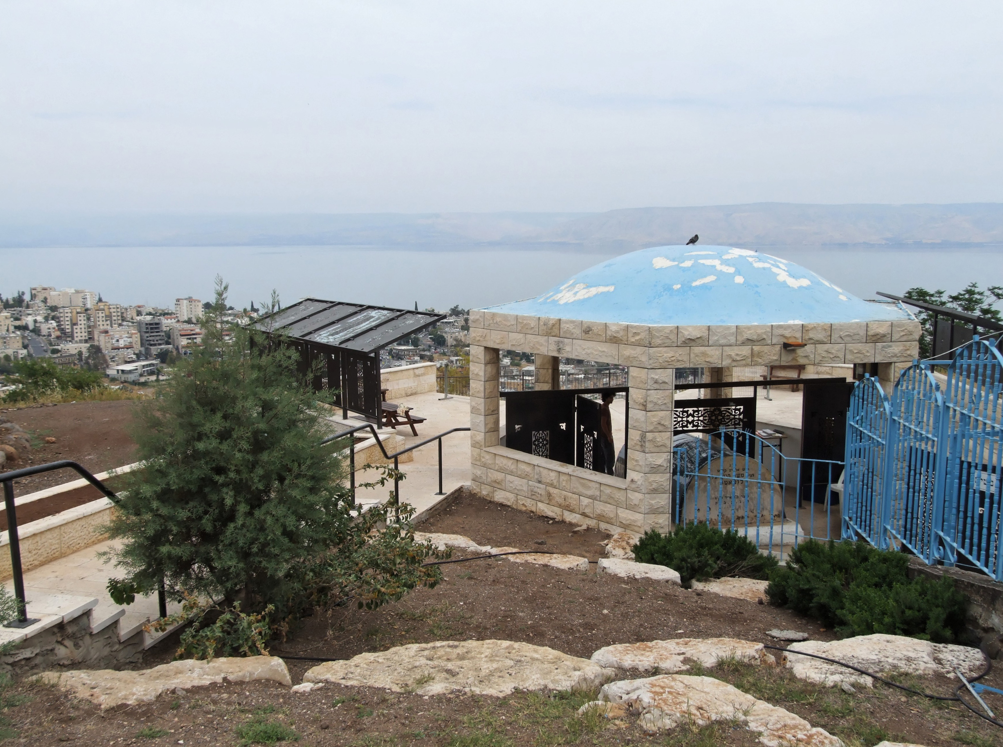 Rabbi Akiva and Luzzato graves.